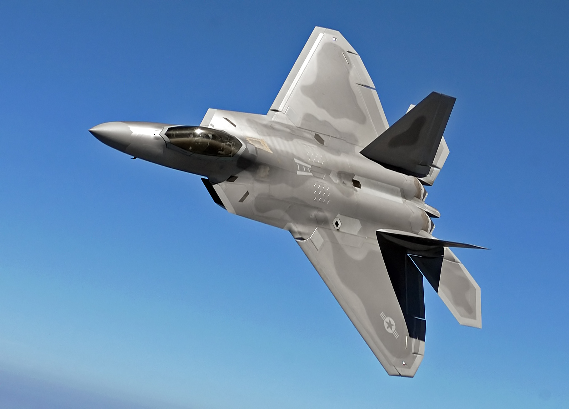 A F-22 from the 27th Fighter Squadron, flown by Lt. Col. James Hecker near Langley AFB